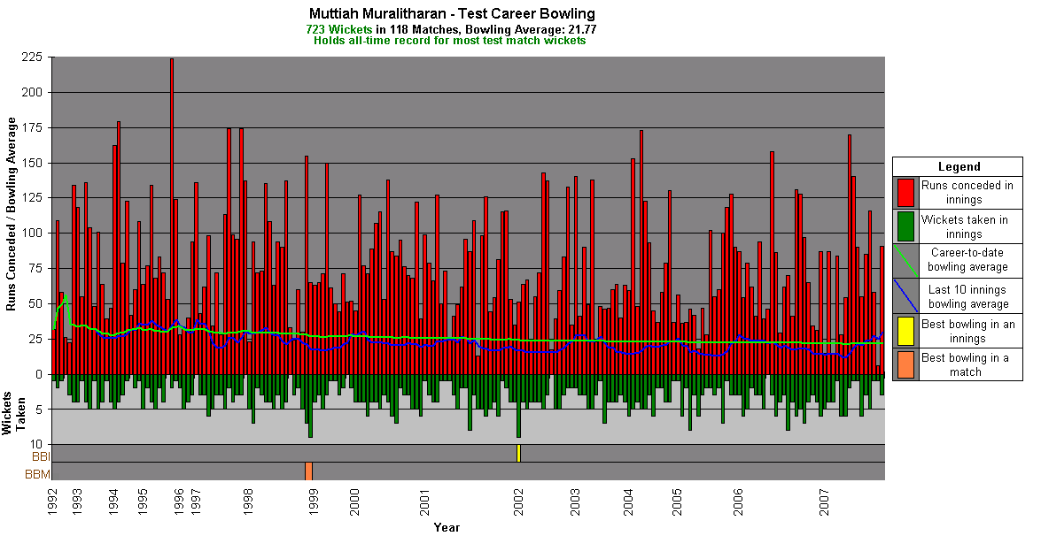 A graph that shows Muttiah Muralitharan's test career bowling statistics and how they have varied over time. It was created by Masai 162. This image was created using Microsoft Excel and MS Paint. Source Data obtained from This graph is up to date as of 24th December 2007.